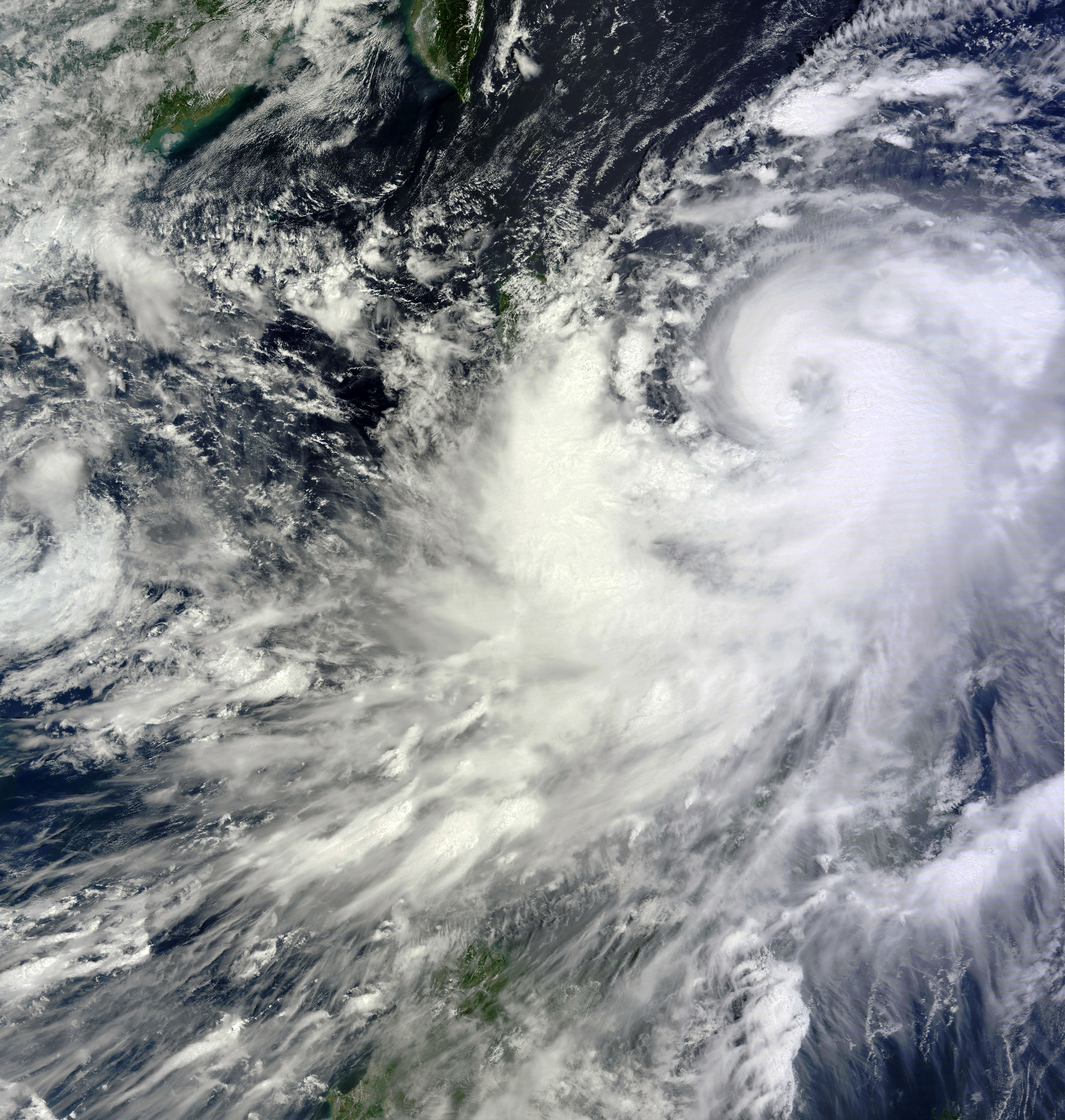 The Moderate Resolution Imaging Spectroradiometer (MODIS) on NASA’s Terra satellite captured this natural-color image of Typhoon Nesat as a category 2 typhoon, nearing the Philippines on September 26 2011, at 02:39UTC.